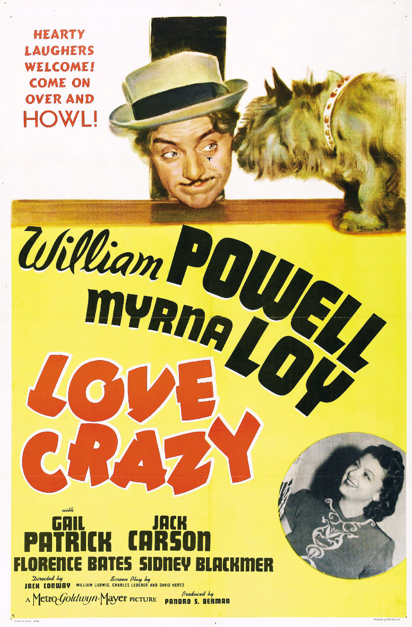 Poster for the 1941 film Love Crazy.. The item has no copyright markings on it as can be seen in the links above. At bottom left is "C"-for poster version C (we have many MGM posters that are marked C or D both here and at Commons) Litho in USA and some numbers which probably pertain to the printing of the poster. At bottom right is Tooker Litho Co. NY-they printed the poster.